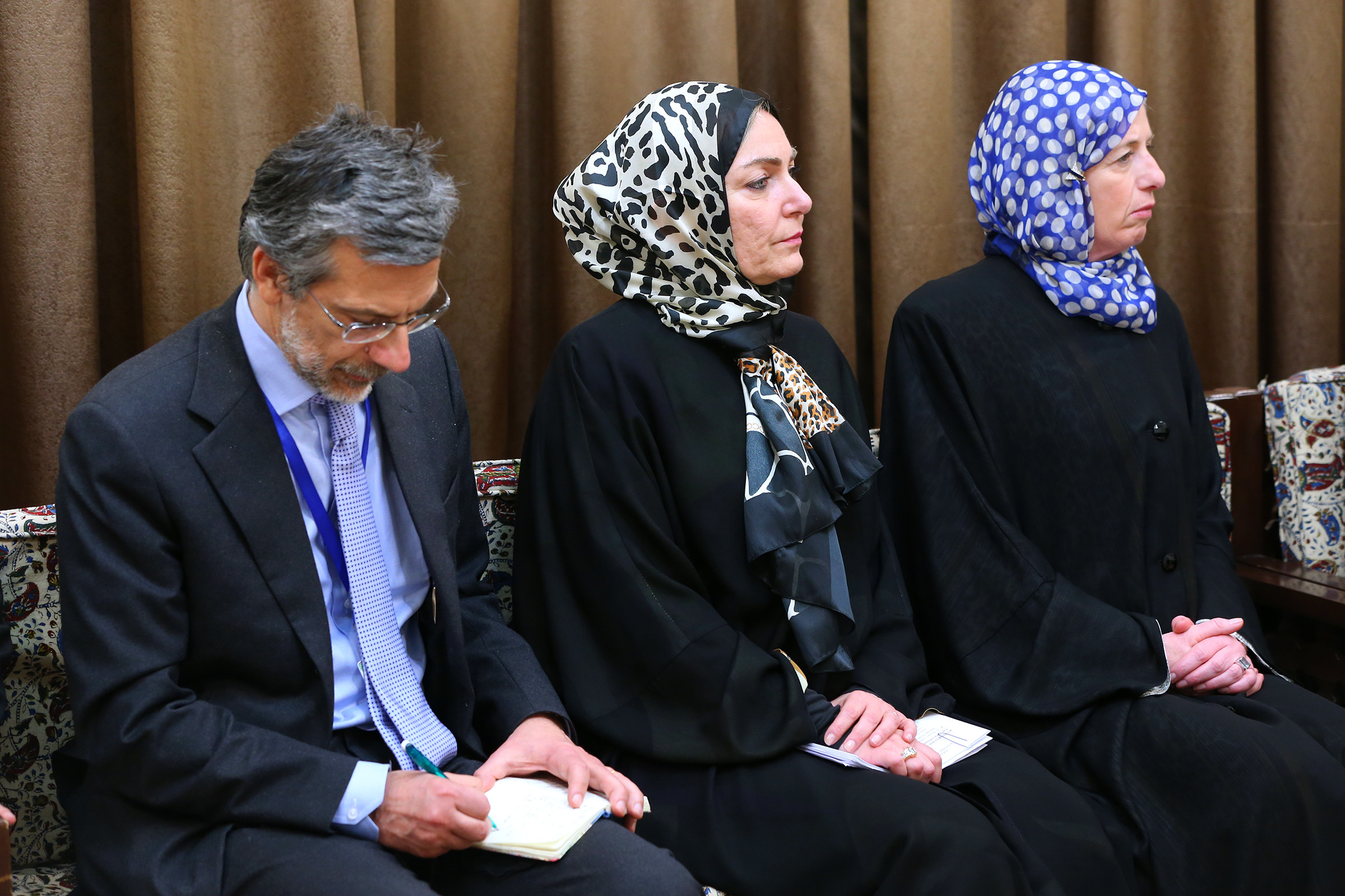 Stefania Giannini and other members of Matteo Renzi's cabinet meeting with Ali Khamenei.